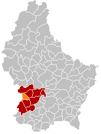 Own edit of Kanton CapellenLocatie.png